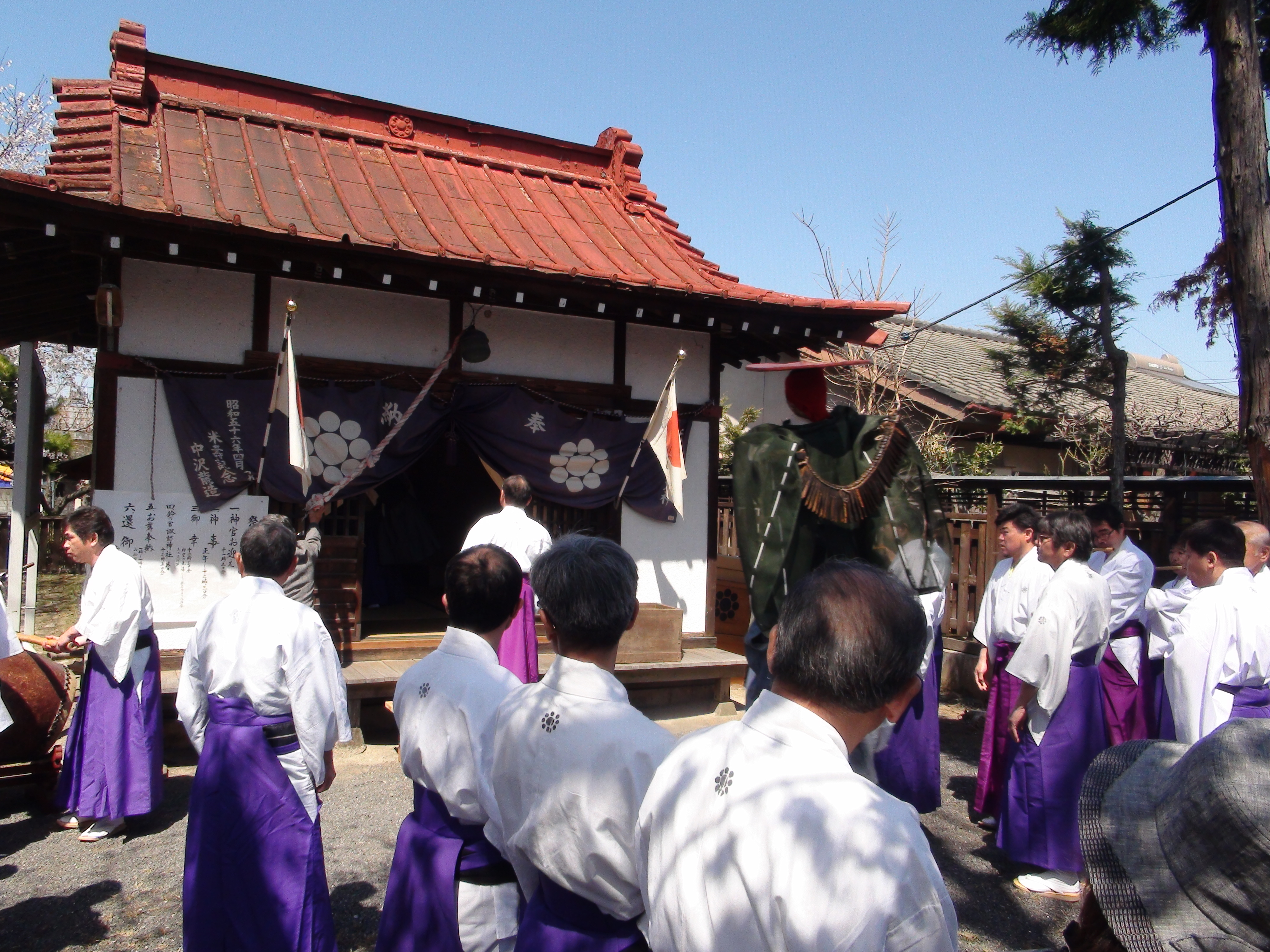 Starting the Tenzushi-shrine, Tenzushi-dolls